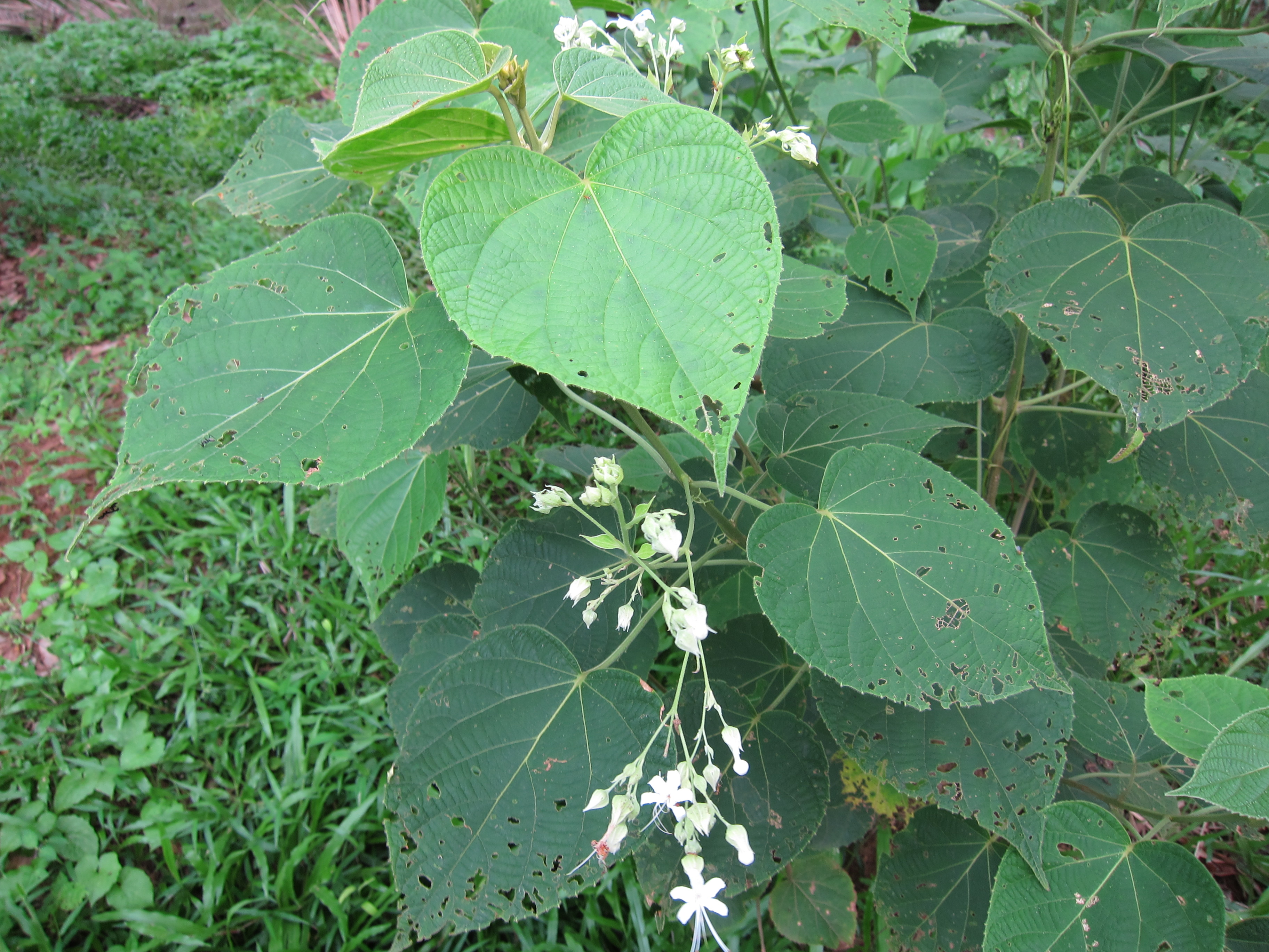 Clerodendrum #viscosum - Hill Clerodendrum പെരു #പെരുവ #പെരുവം #പെരുവലം #പെരുകിലം #പെരുക് #ഒരുവേരൻ